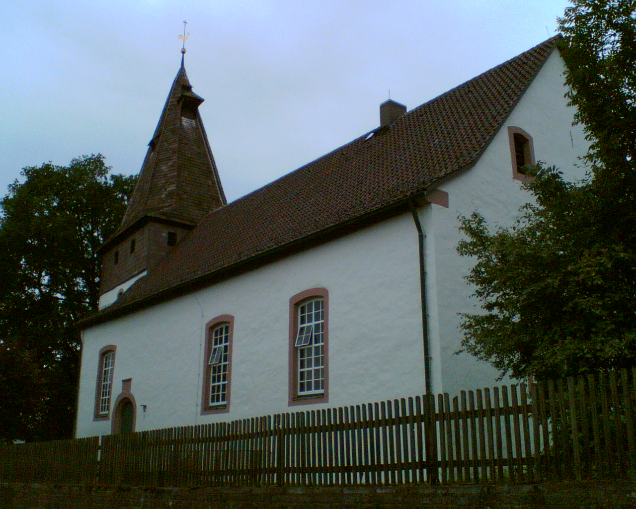 Golmbach church